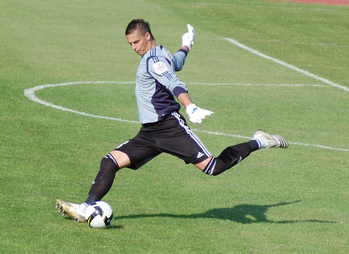 Slovak association football player from Artmedia Bratislava, Ľuboš Kamenár at match against MFK Kosice.